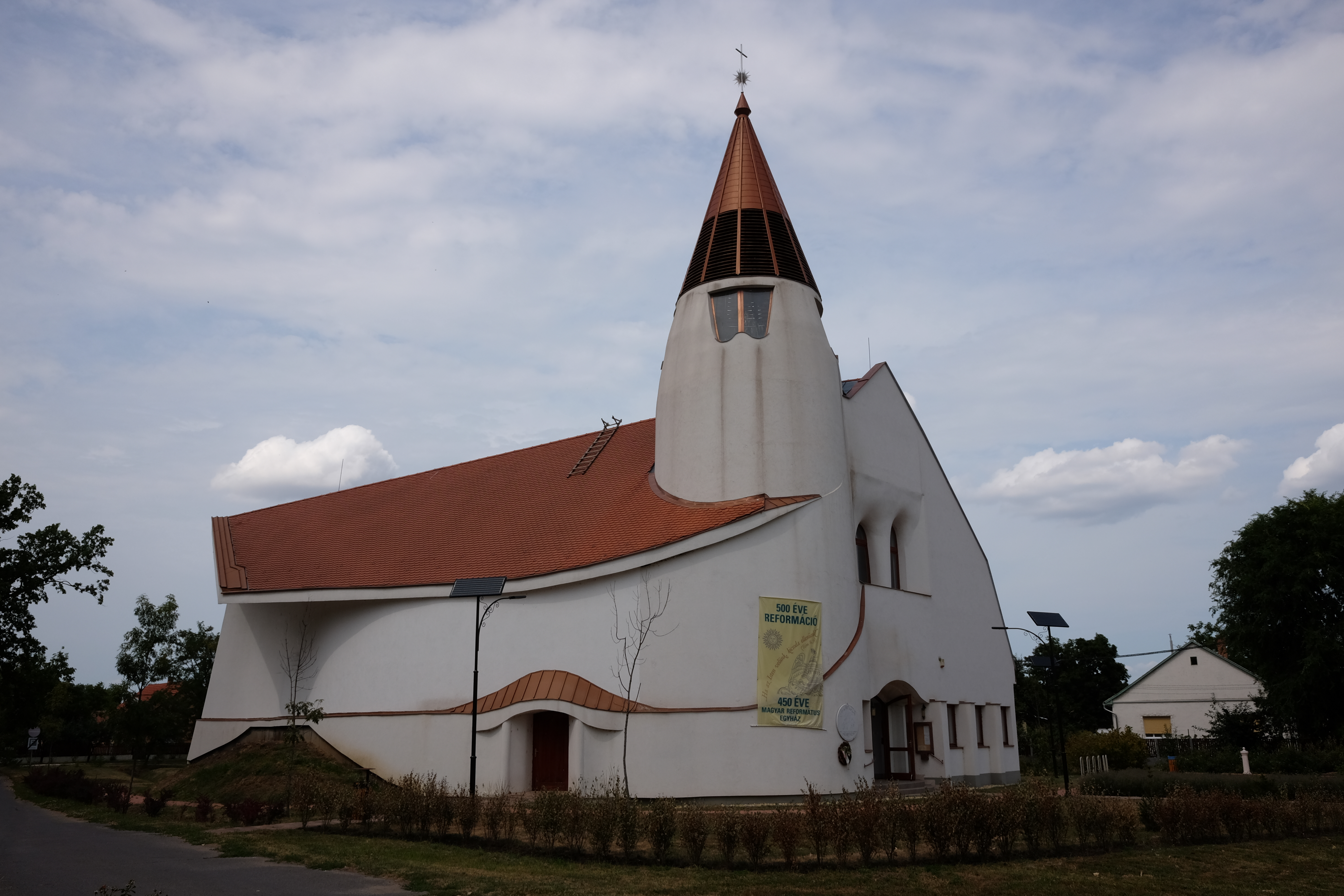 Ökumenikus Pusztatemplom, church in Hortobágy, 2017-07-22.